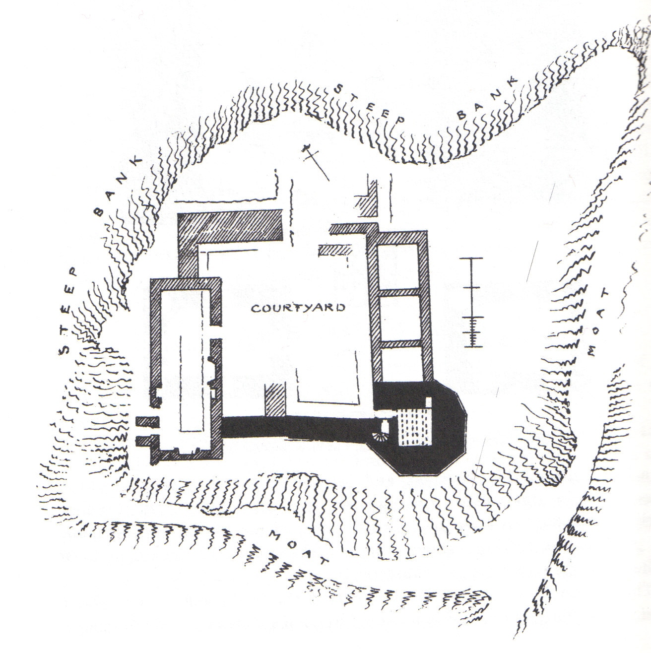 A plan of Terringzean Castle. Cumnock, Ayrshire, Scotland.